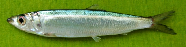 Dussumieria elopsoides collected in Pakistan.